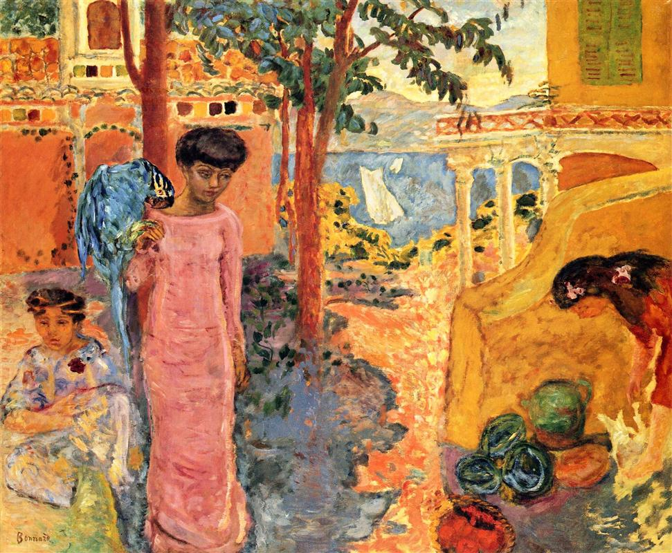 Painting by Pierre Bonnard